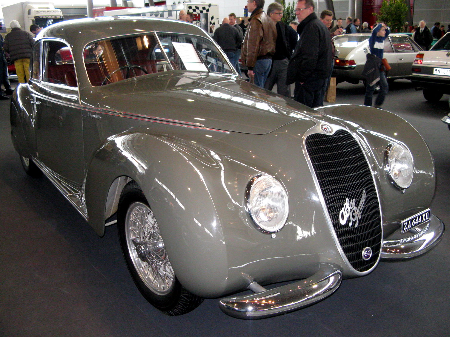 1939 Alfa-Romeo 6C 2500 Castagna